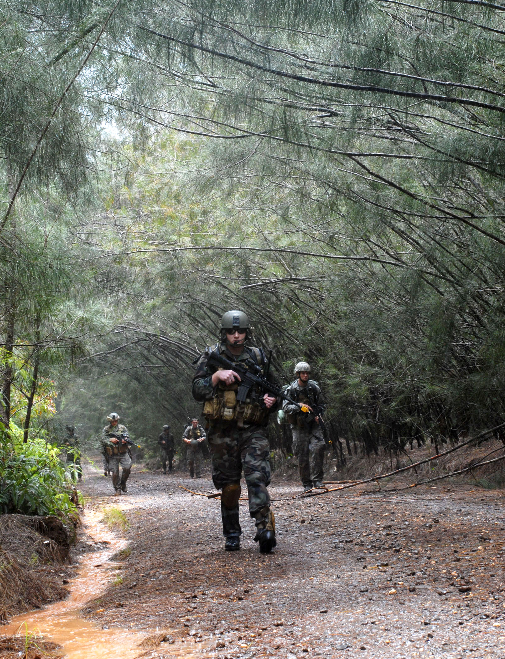 Tactical Air Control Party airmen hike at Wheeler Army Airfield's East Range to sharpen proficiencies necessary for upgrade training. When deployed, these young men who volunteered for the TACP career field are responsible for calling in close-air support and providing clearance for air assaults to ensure the right targets are reached. Stationed with Army combat units on the ground, they must be also prepared to administer first aid and survive in a hostile environment. (U.S. Air Force photo/Senior Airman Carolyn Viss)